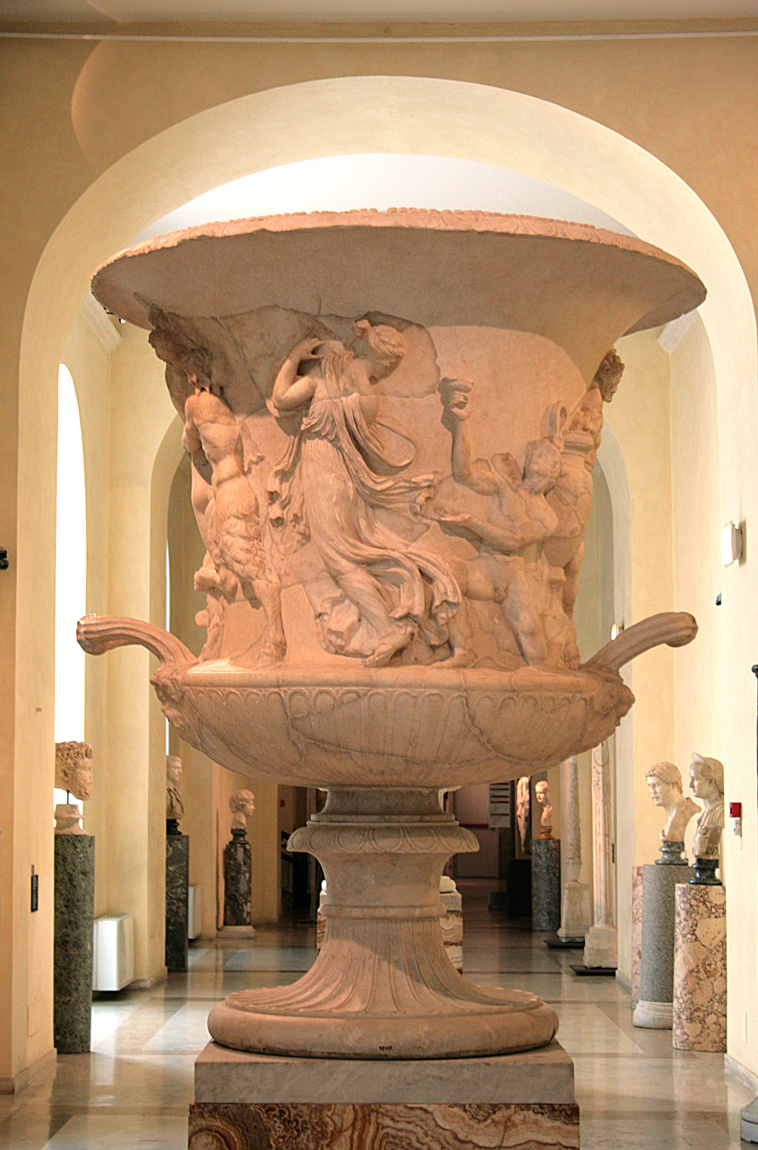 Fountain in the shape of crater decorated with Dionysian scenes.